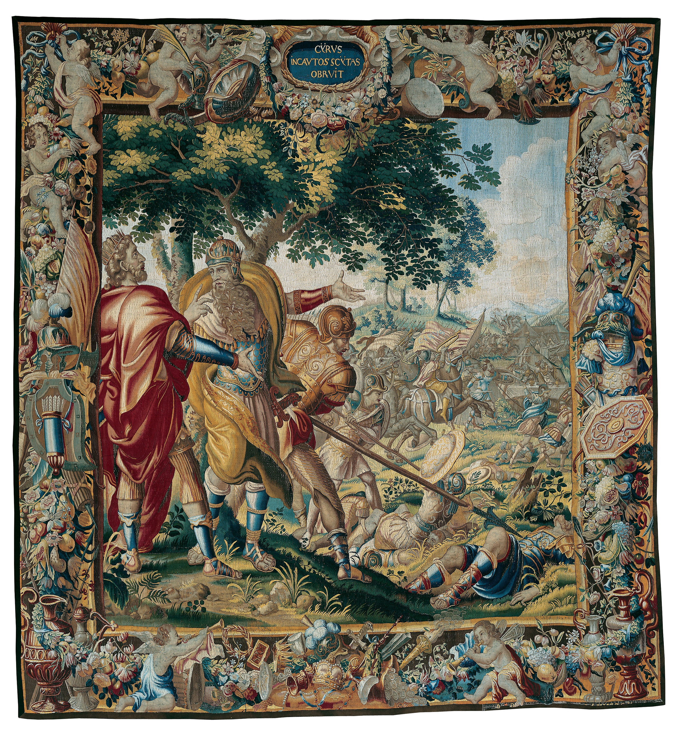 Adapted from designs by Michiel Coxie (1499–1592) Woven at the workshop of Albert Auwercx (1629–1709) Flanders, Brussels